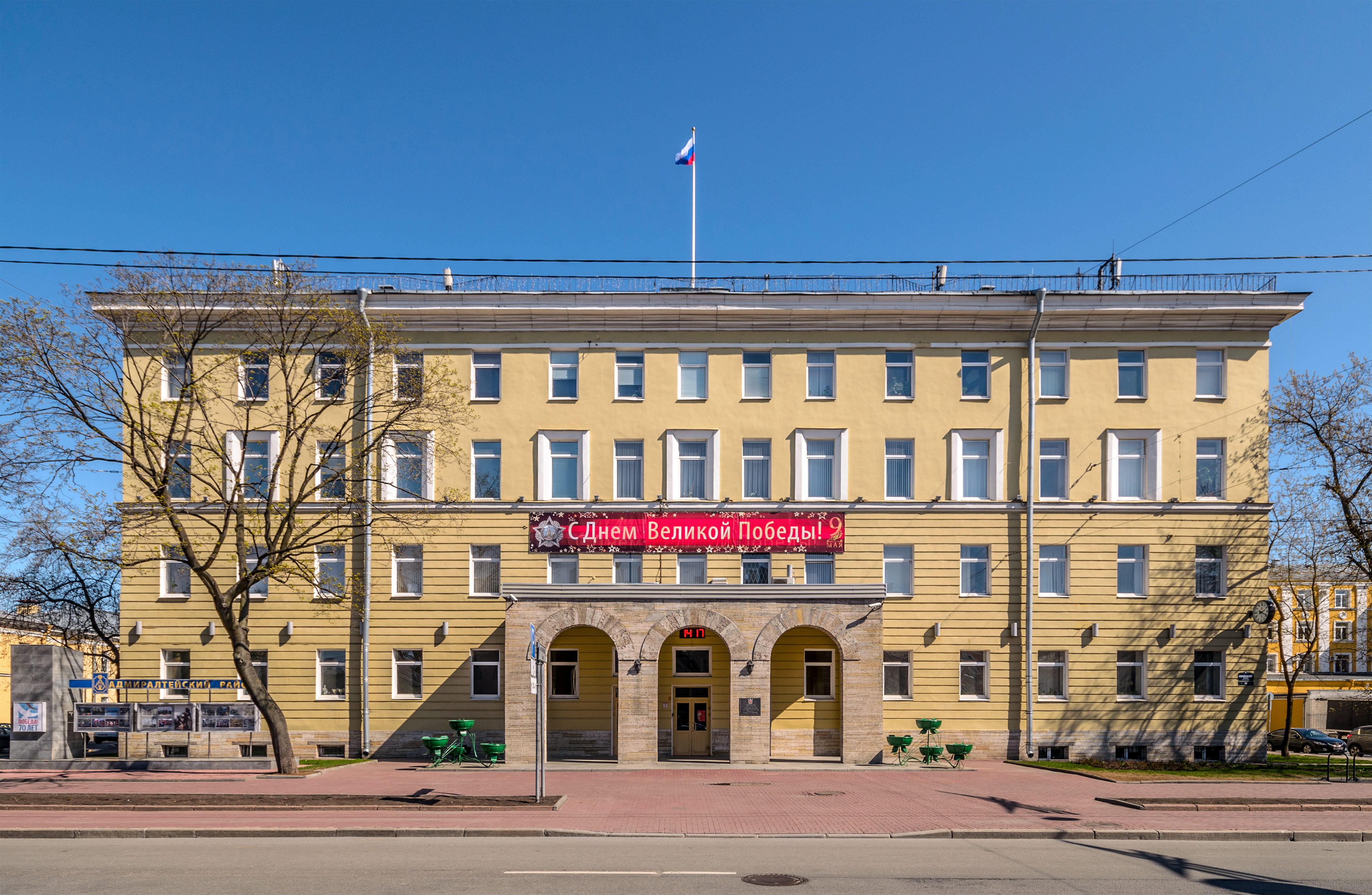 Admiralteysky District Administration Building in Saint Petersburg